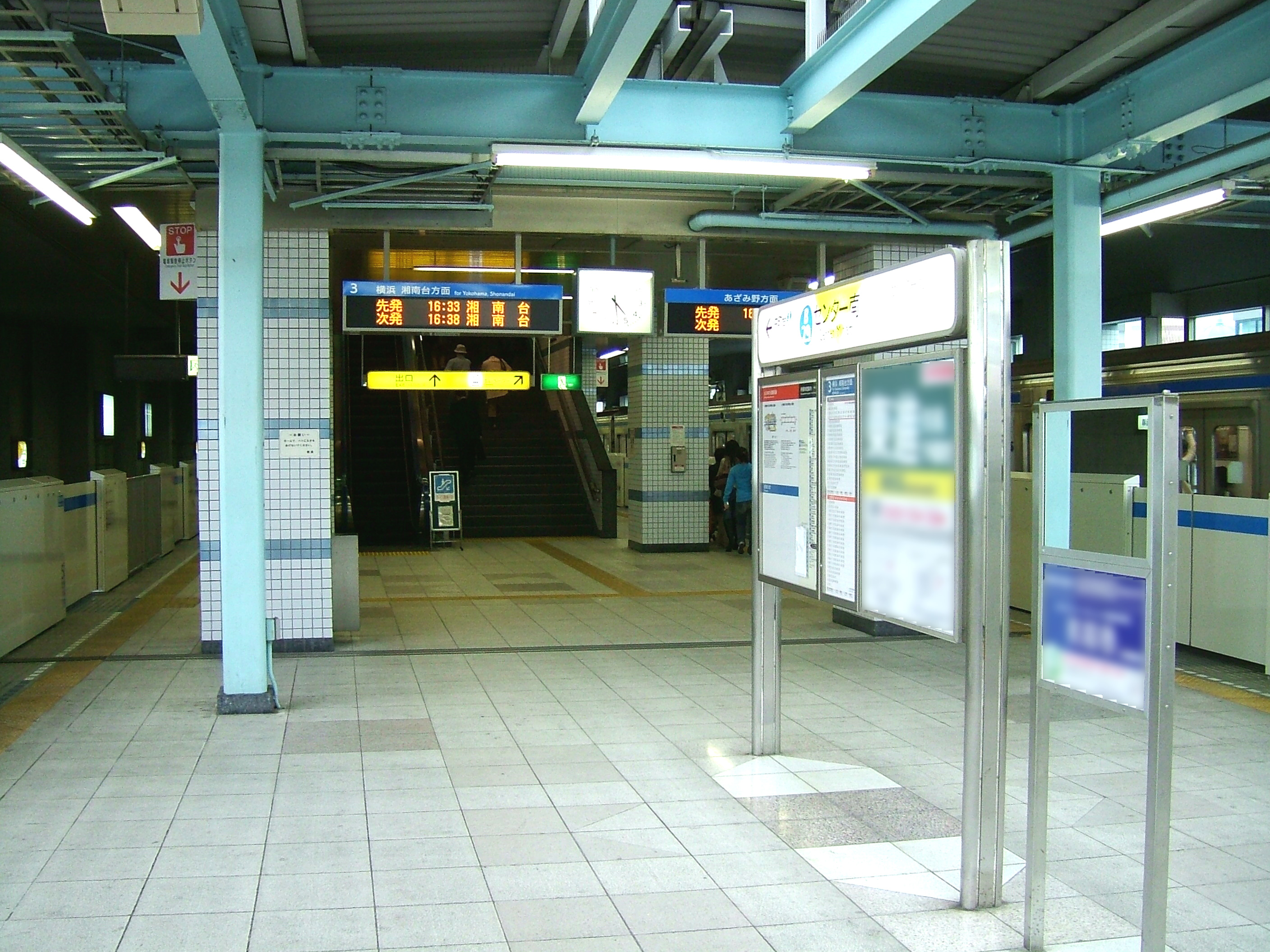 Center Minami Station platform (Yokohama Municipal Subway Blue Line)